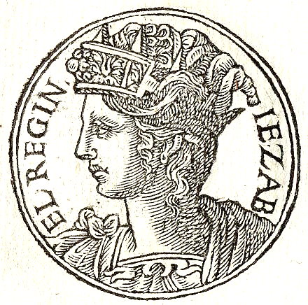 Jezebel is the Phoenician queen of ancient Israel.